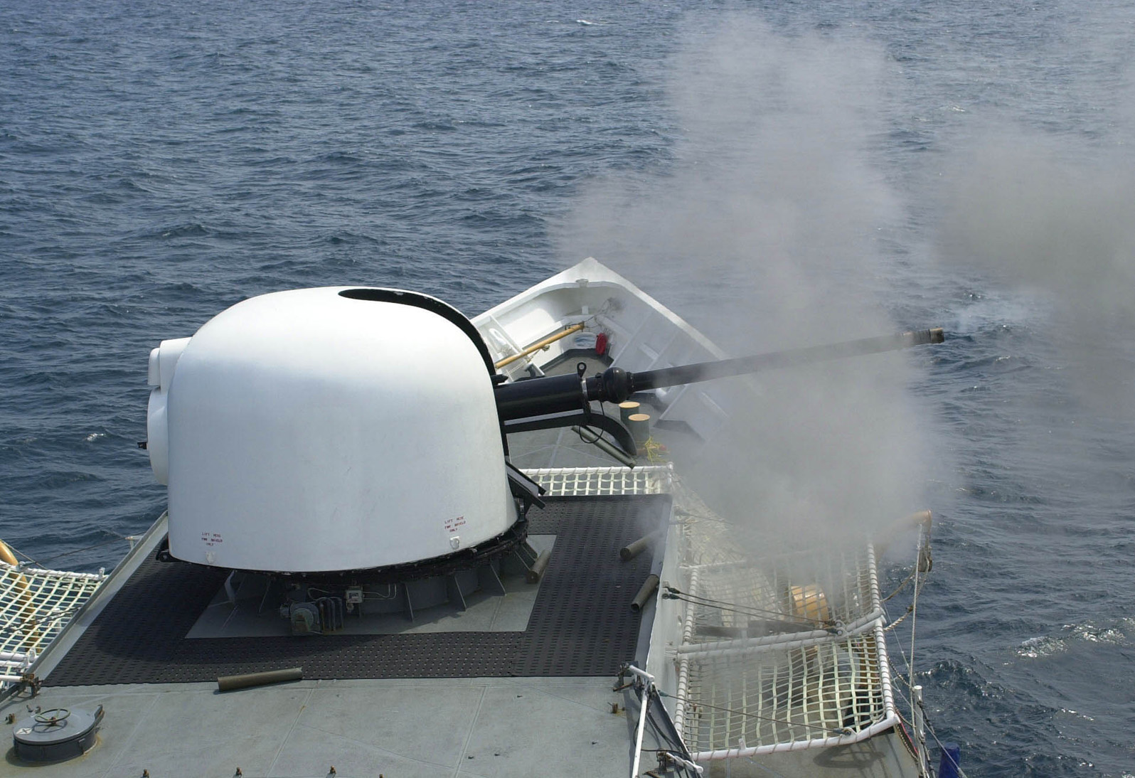 The Mk 75, 76mm gun aboard the Coast Guard Cutter Gallatin fires a three-round burst during a live-fire exercise off the coast of Mayport, Florida, April 26, 2005. The Mk 75 can fire up to 80 rounds a minute and has a range of approximately 10 nautical miles. The Gallatin is a 378-foot cutter homeported in Charleston, S.C.